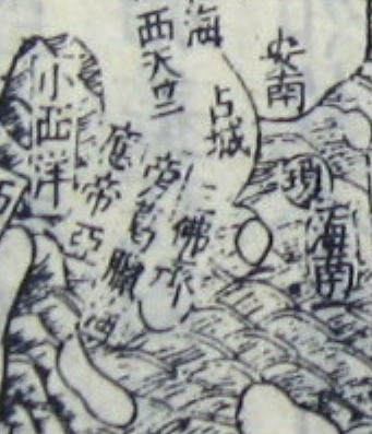 Sancai_Tuhui_South_Asia